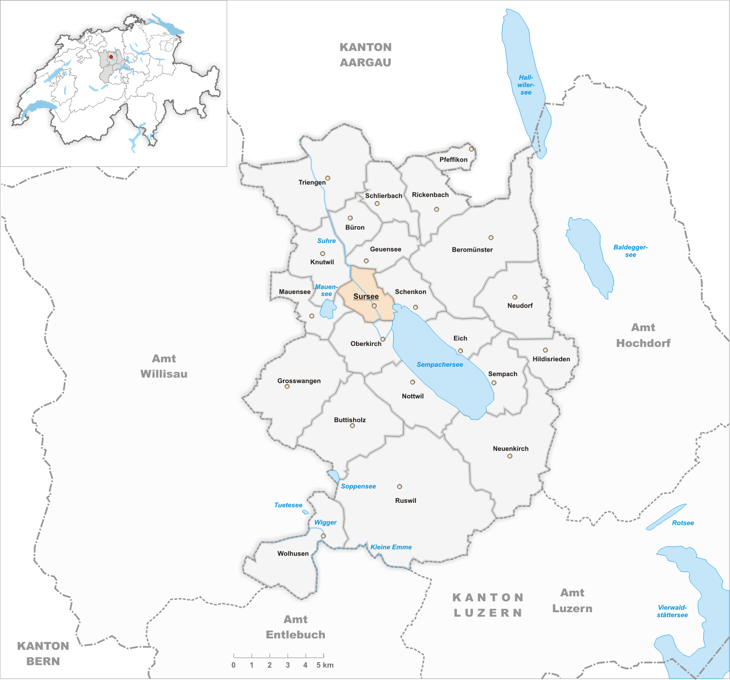 Municipality Sursee